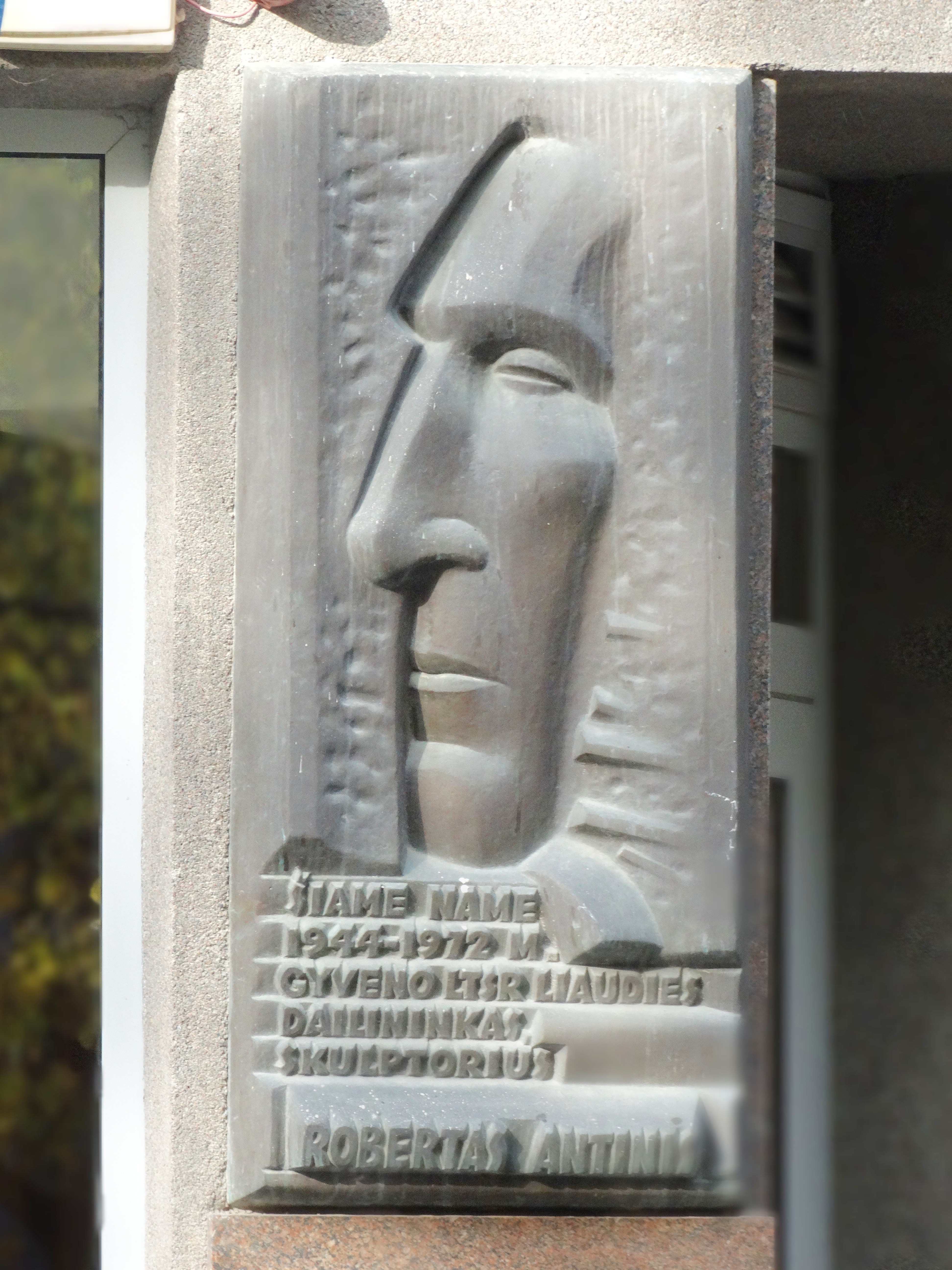 Robertas Antinis (1898–1981), Kaunas, Lithuania